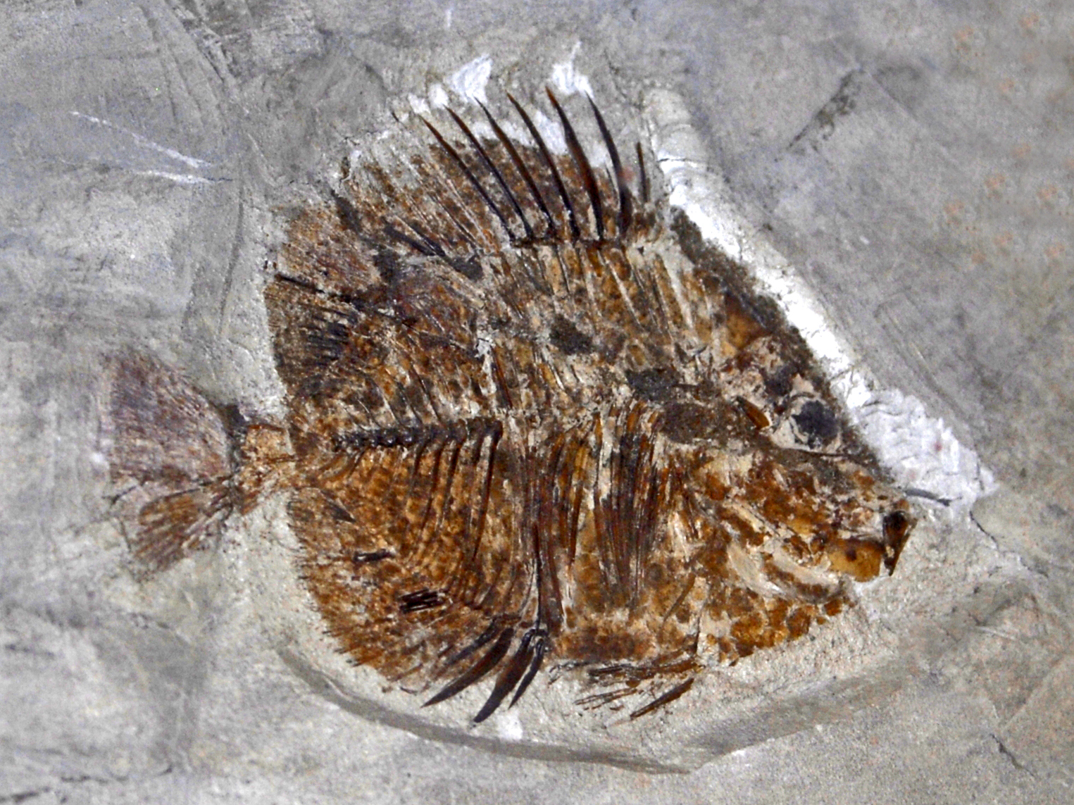 Fossil of Chaetodon species, on display at Museo Geologico G. Cappellini, Bologna